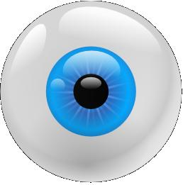 I found the image here Where it stated it was public domain